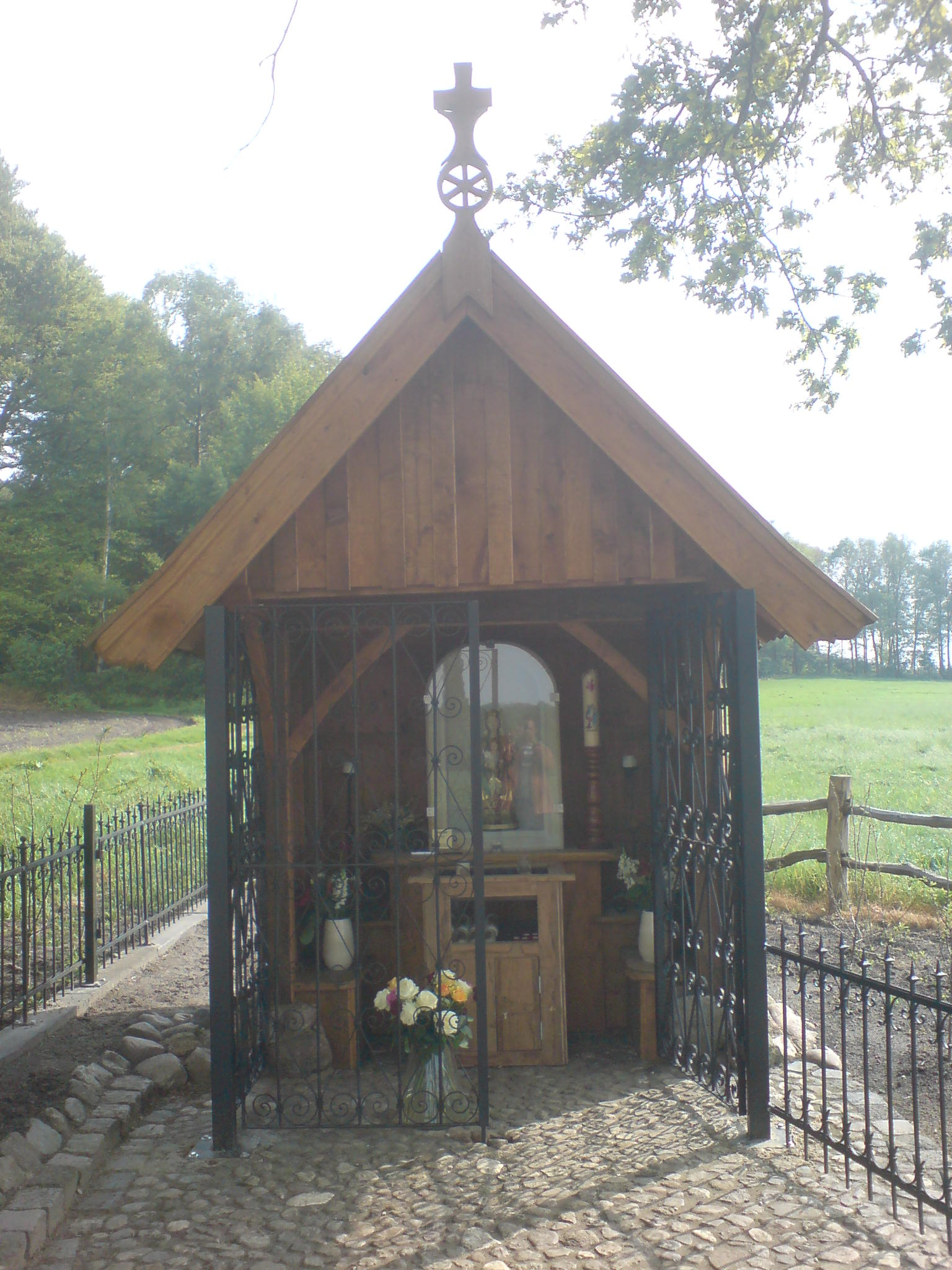 Chapel of Our Lady of Succour at the hill De Hulpe (The Help) near the village of Markelo, region of Twente, province Overijssel, Kingdom of the Netherlands. Opened May 2009. Before the Protestant Reformation, a miraculous statue of the Blessed Virgin Mary was reported near or at the present site, part of religious life of the village. In the context of the Cultural Religious Heritage Tour around Markelo, the chapel and site were restored.